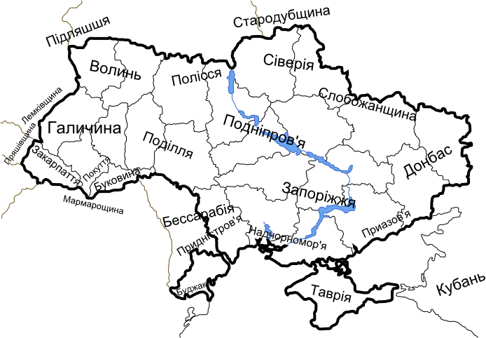 Ukrainian-language version of the map of Ukrainian historical regions and historical regions around Ukraine. The source code of this SVG is valid. This vector image was created with Inkscape, and then manually edited.